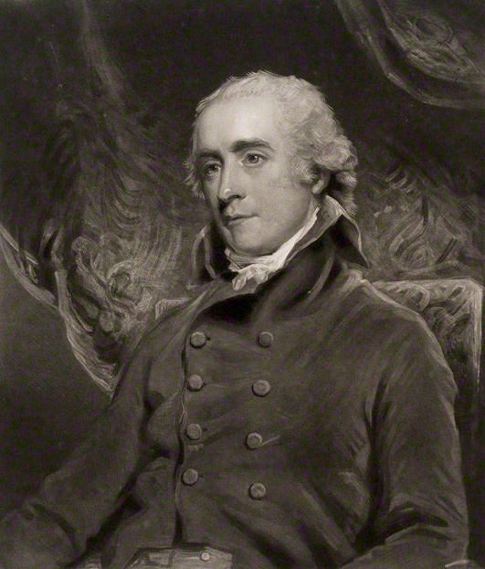 Thomas Grenville, mezzotint